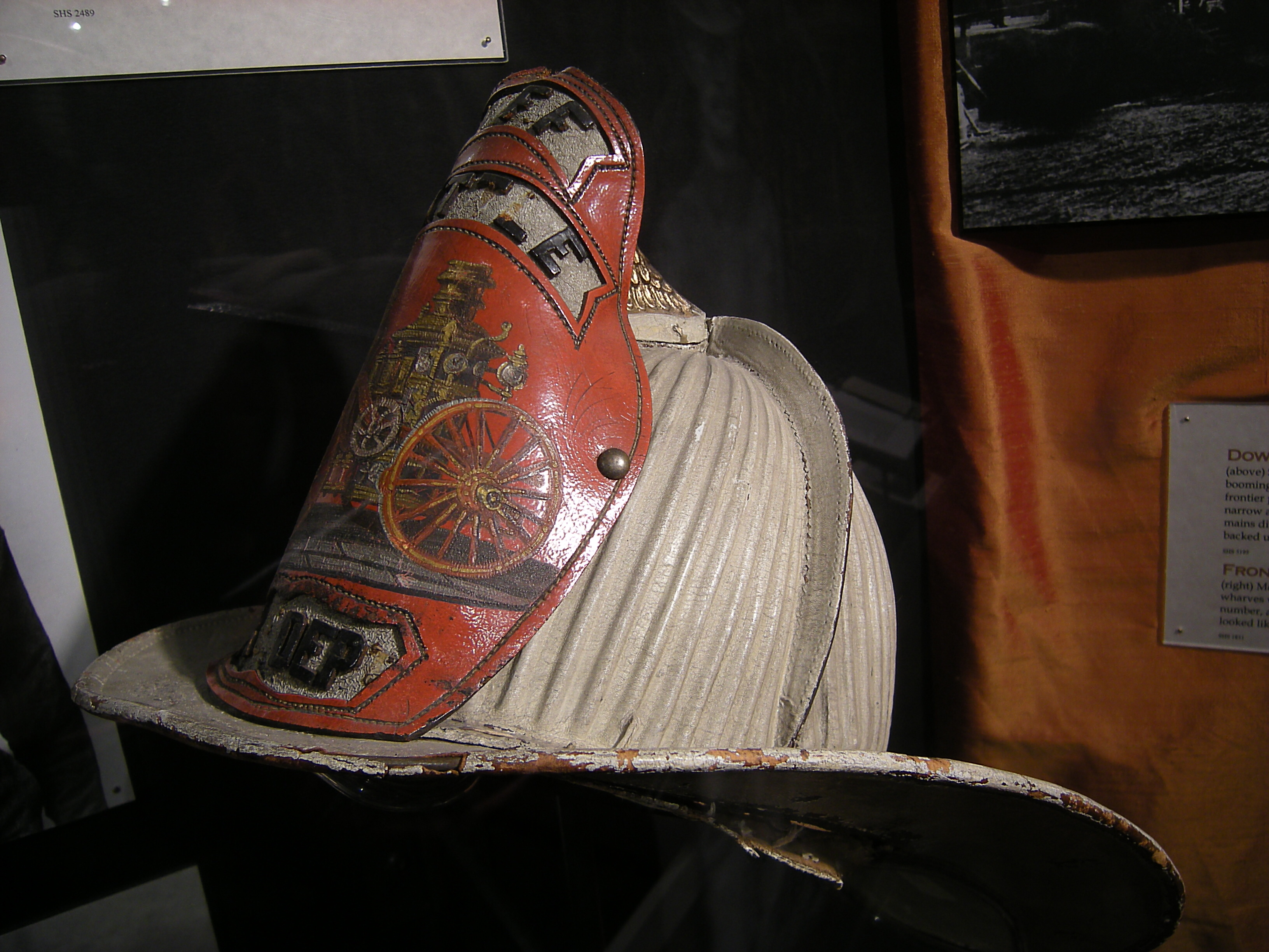 Josiah Collins's fire chief hat / helmet. Collins was Seattle fire chief at the time of the Great Seattle Fire of 1889. As it happens, he was out of town at a fire chiefs' convention in San Francisco at the time of the fire, and eventually resigned over what was generally seen as poor handling of the fire by his department.